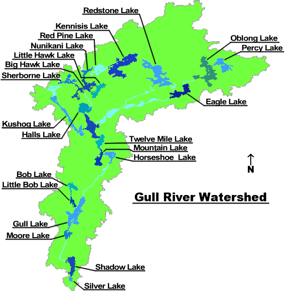 A map based upon a water level map on the Trent-Severn Waterways website labeling the lakes of the system.